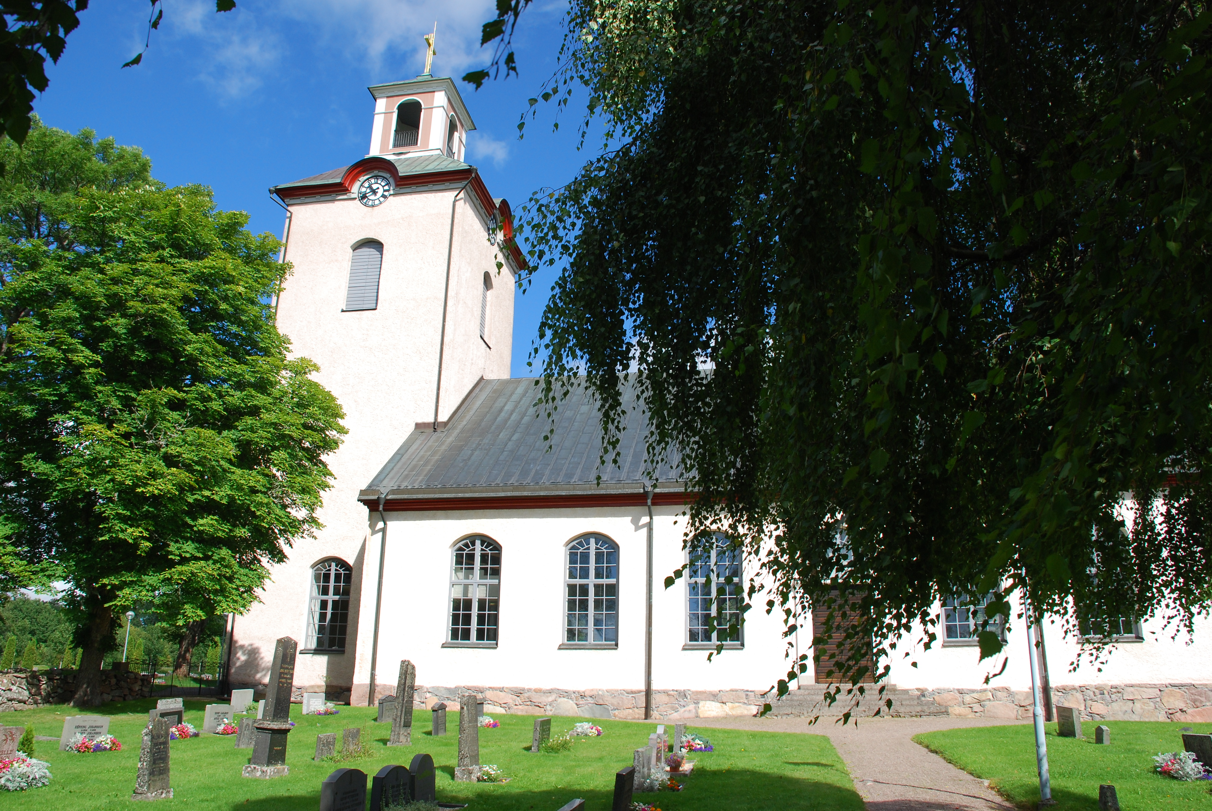 The church of Nottebäck